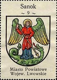 This is a scan I made of a Polish stamp issued in 1930. As a governmental work it is PD.